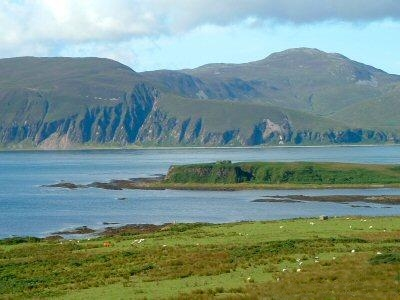 Site of Claig Castle on Fraoch Eilean, just off the Isle of Jura